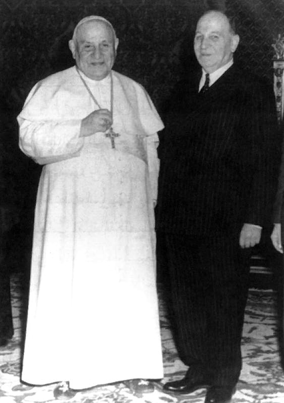 Pope John XXIII and Sami as-Solh (circa 1959)